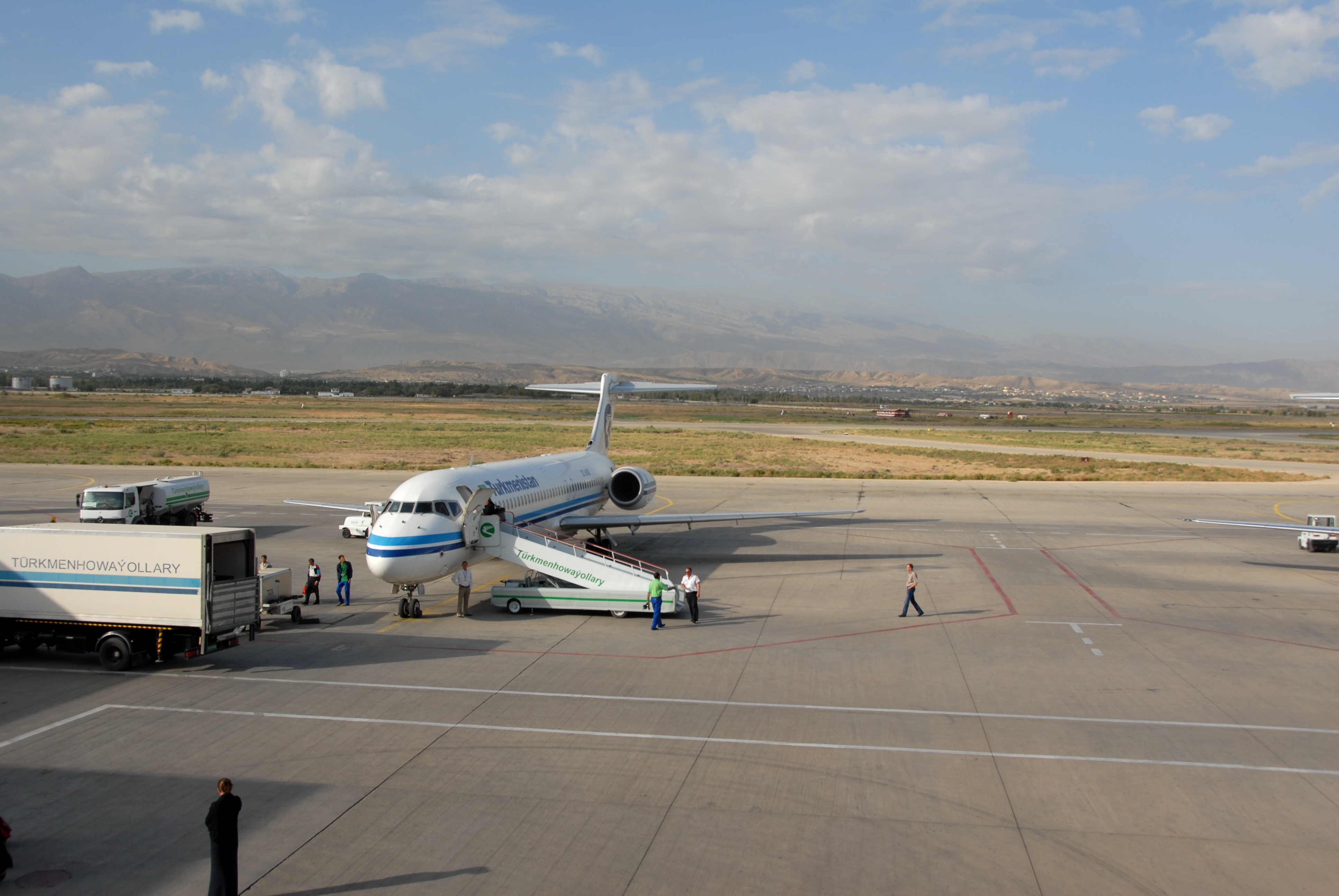 Ashgabat Airport in 2008.